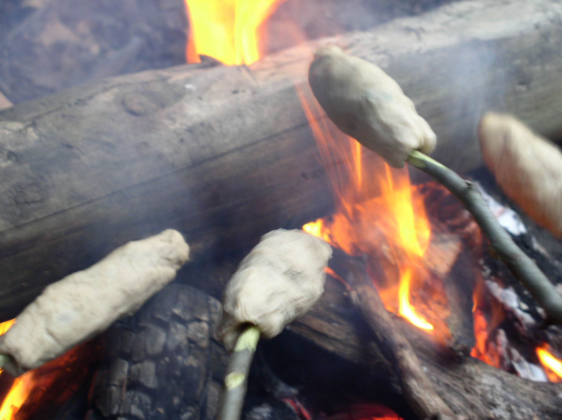 a piece of bread at the tip of a stick